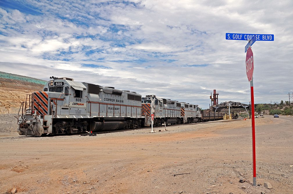 Dumping at Hayden Aug 7th 2010